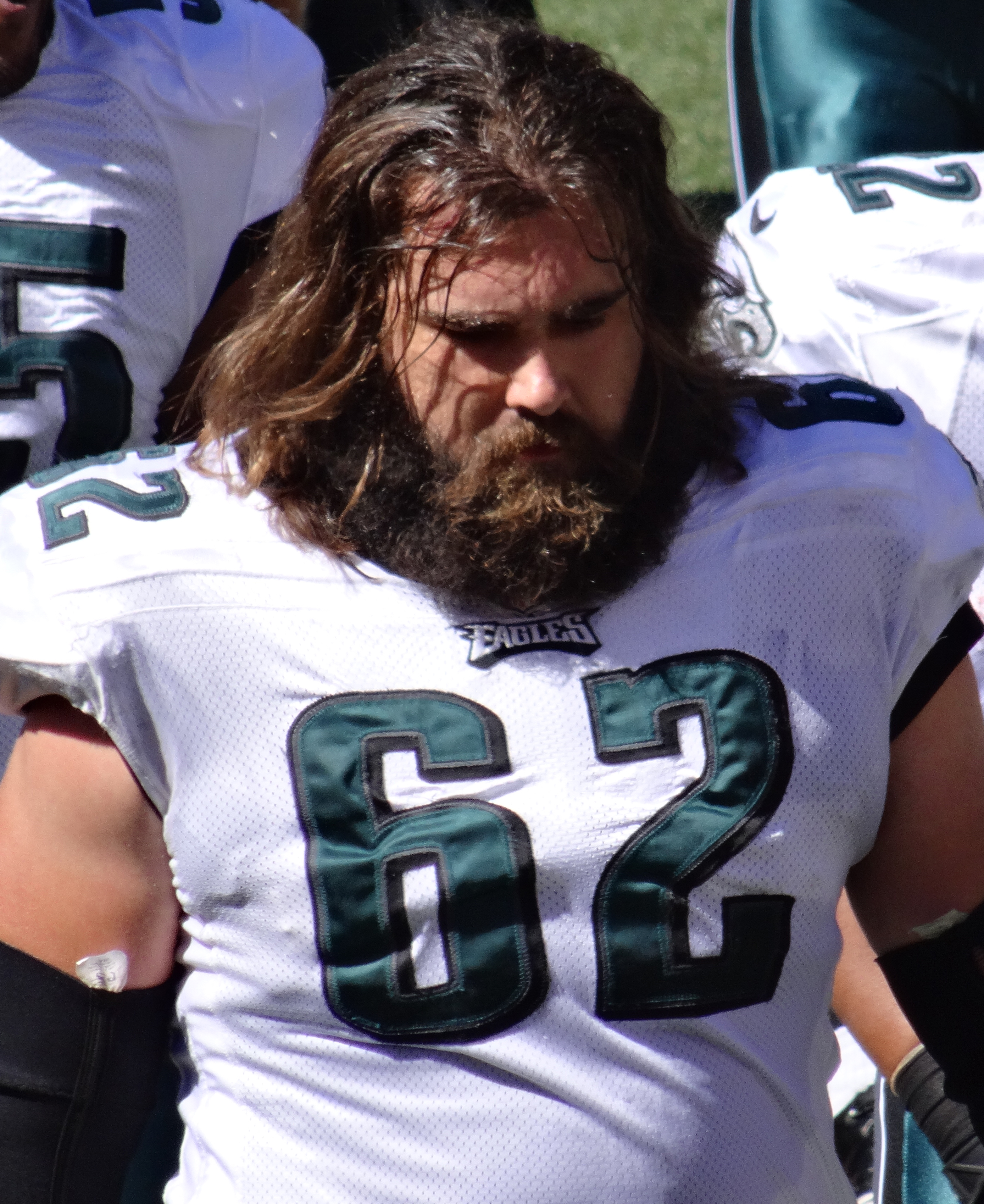 Jason Kelce, a player on the National Football League.